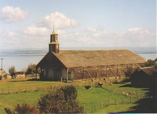 Church of Quinchao, Chiloe